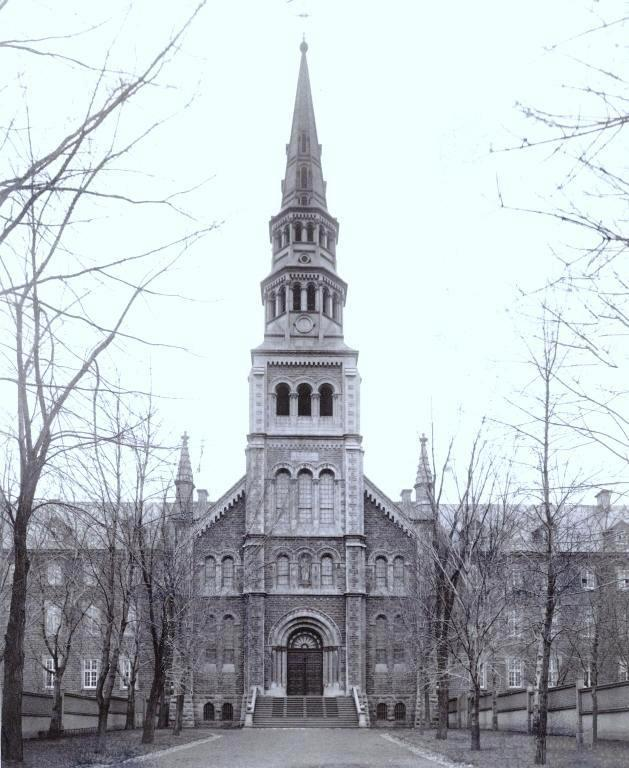 Photograph, Grey Nuns Convent chapel entrance, Dorchester Street, Montreal, QC, about 1890. Silver salts on paper mounted on card - Albumen process 23.5 x 19.2 cm